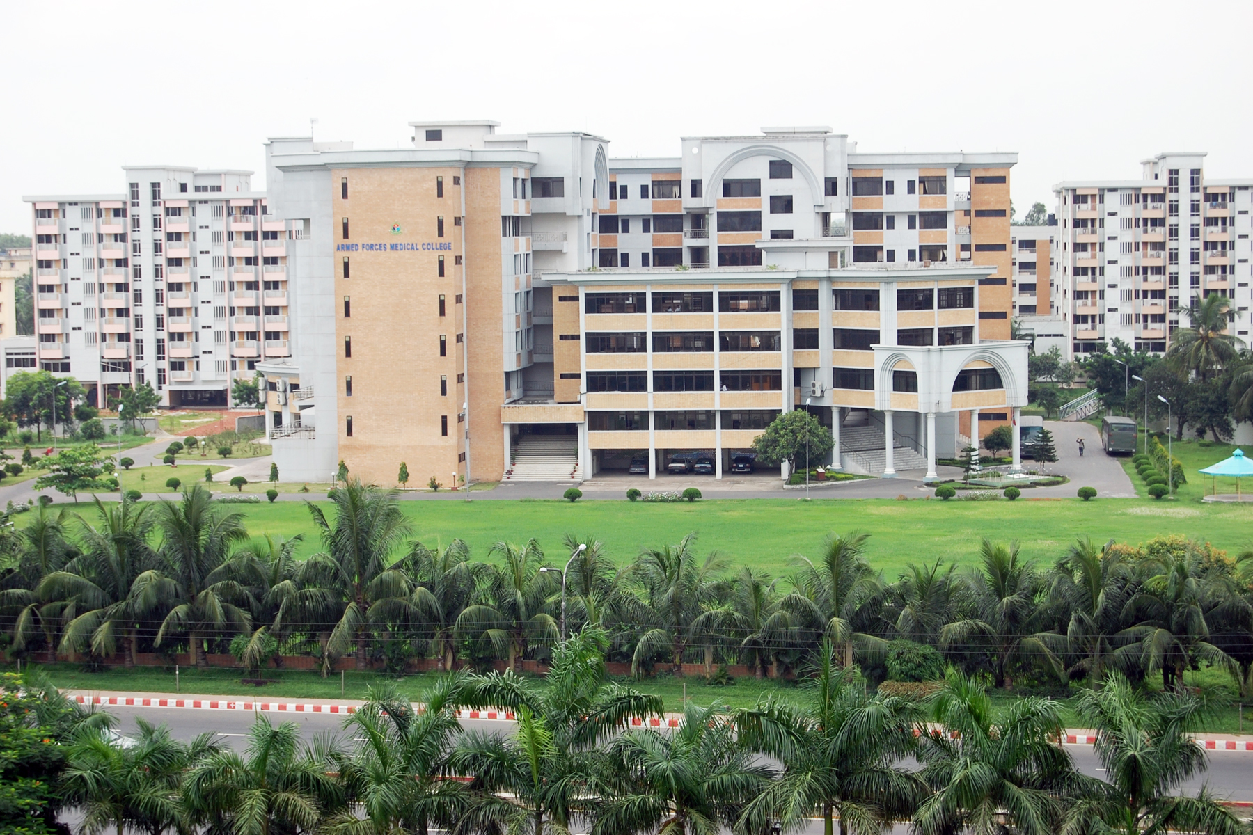 The beautiful campus of AFMC